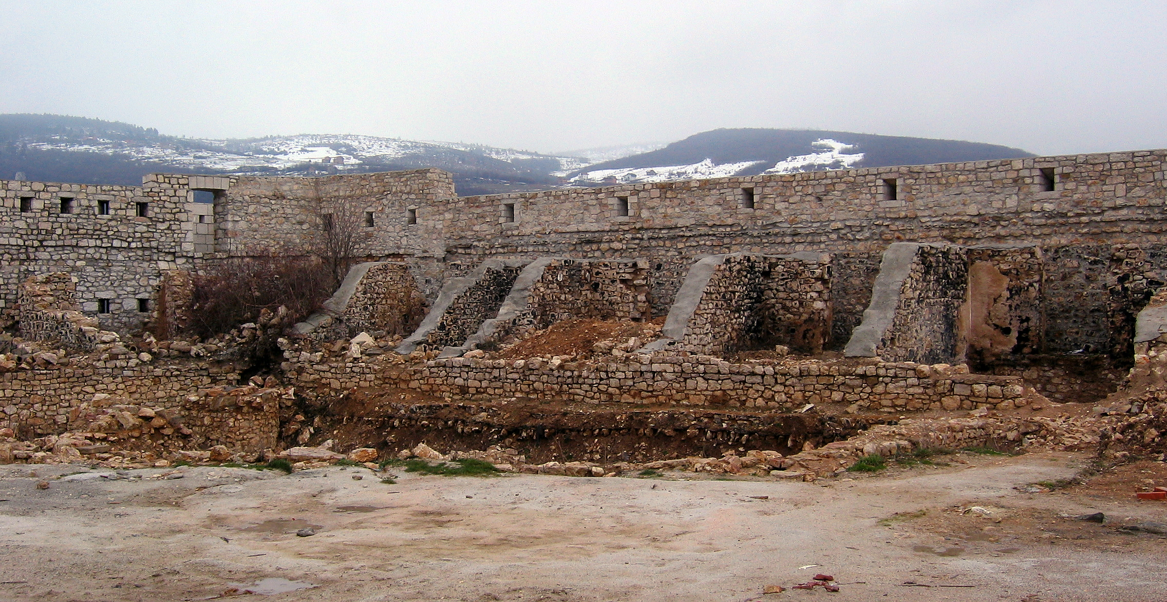 Interior view of the castle ruins of Bijela Tabija in Sarajevo.